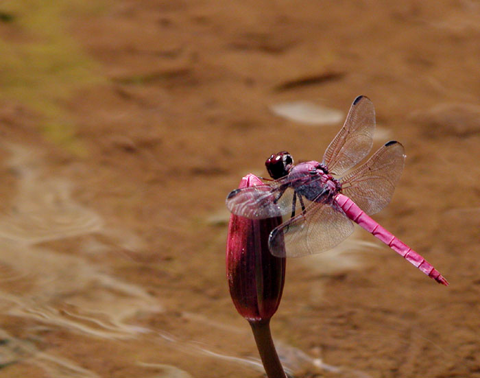 Male Roseate Skimmer (Orthemis ferruginea) on a lily. It took me 35 tries to get this. He only landed for about half a second at a time.